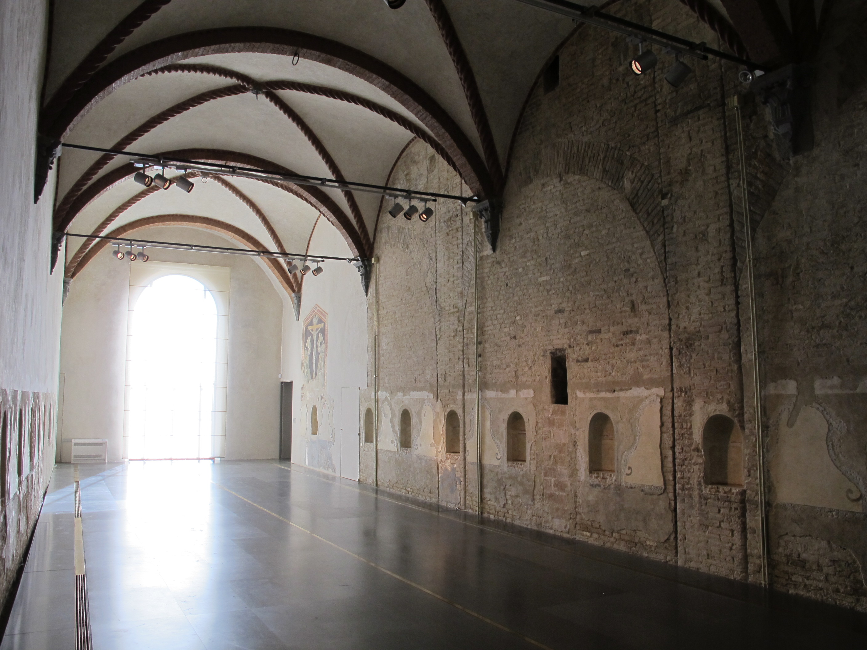 Pilgrims Lane in Santa Maria della Scala Hospital (Siena)